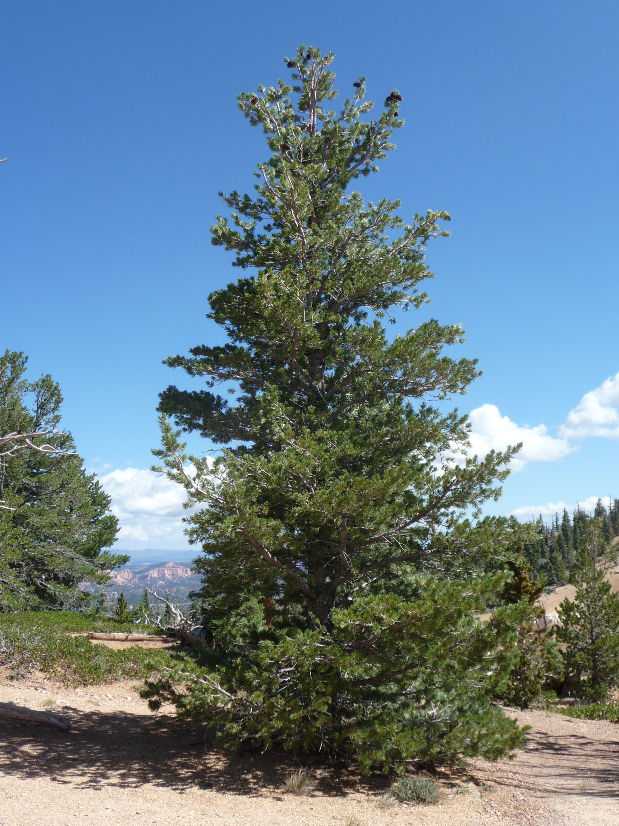 Pinus flexilis on the Bristlecone Loop Trail in Bryce Canyon National Park, Utah, USA.